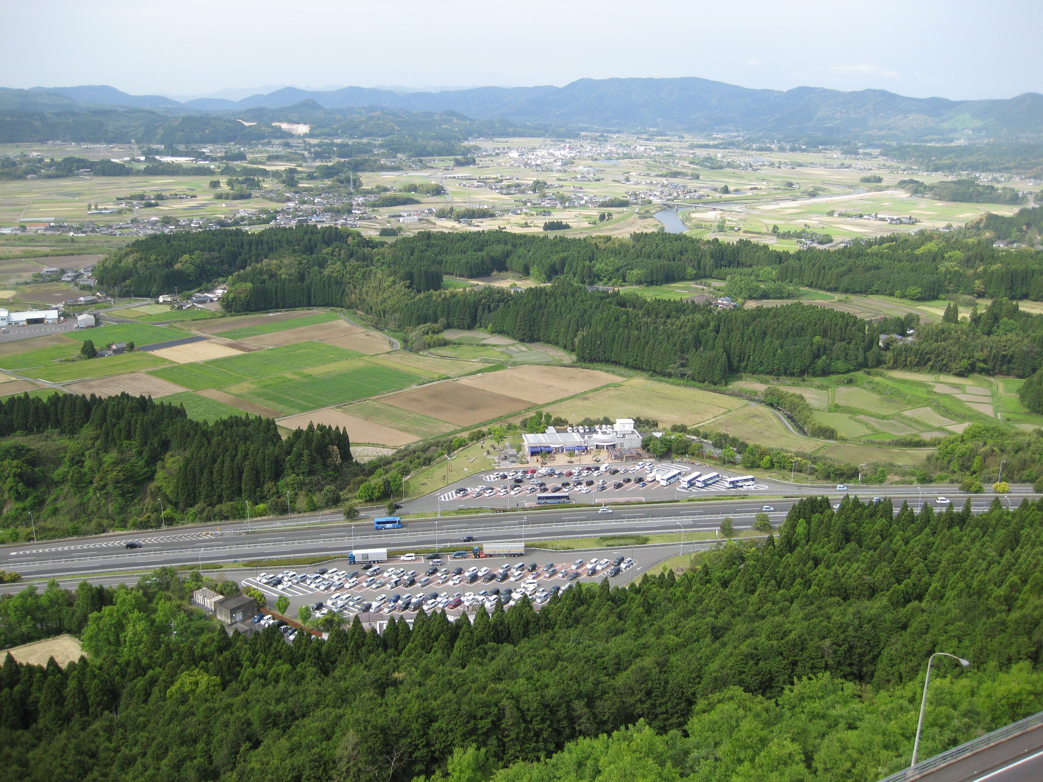 Ebino Parking Area on the Kyushu Expressway in the west of Kakuto Basin in Kyushu, Japan. Taken from the Kiri-no-Ohashi on the Route 221